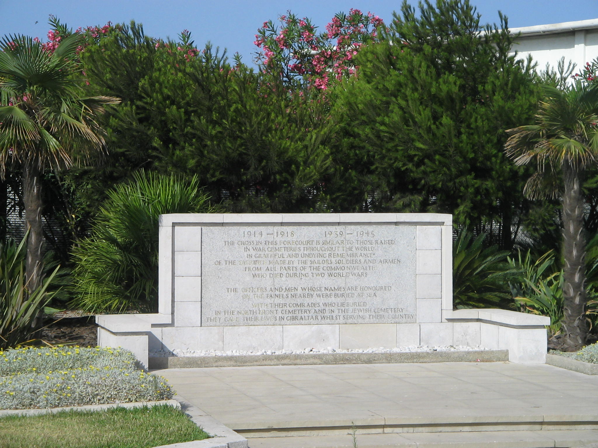 War memorial in Gibraltar 1914-1918 1939-1945 THE CROSS IN THIS FORECOURT IS SIMILAR TO THOSE RAISED IN WAR CEMETERIES THROUGHOUT THE WORLD IN GRATEFUL AND UNDYING REMEMBRANCE OF THE SACRIFICE MADE BY SAILORS SOLDIERS AND AIRMEN FROM ALL PARTS OF THE COMMONWEALTH WHO DIED DURING TWO WORLD WARS THE OFFICERS AND MEN WHOSE NAMES ARE HONOURED ON THE PANELS NEARBY WERE BURIED AT SEA WITH THEIR COMRADES WHO LIE BURIED IN THE NORTH FRONT CEMETERY AND IN THE JEWISH CEMETERY THEY GAVE THEIR LIVES AT GIBRALTAR WHILE SERVING THEIR COUNTRY